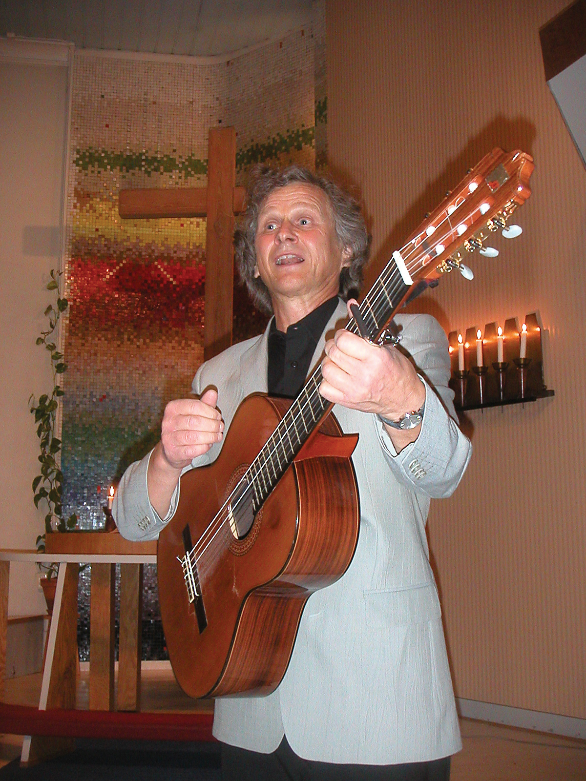 Swedish Christian singer Per Filip during a 2003 concert in a church in Eslöv.